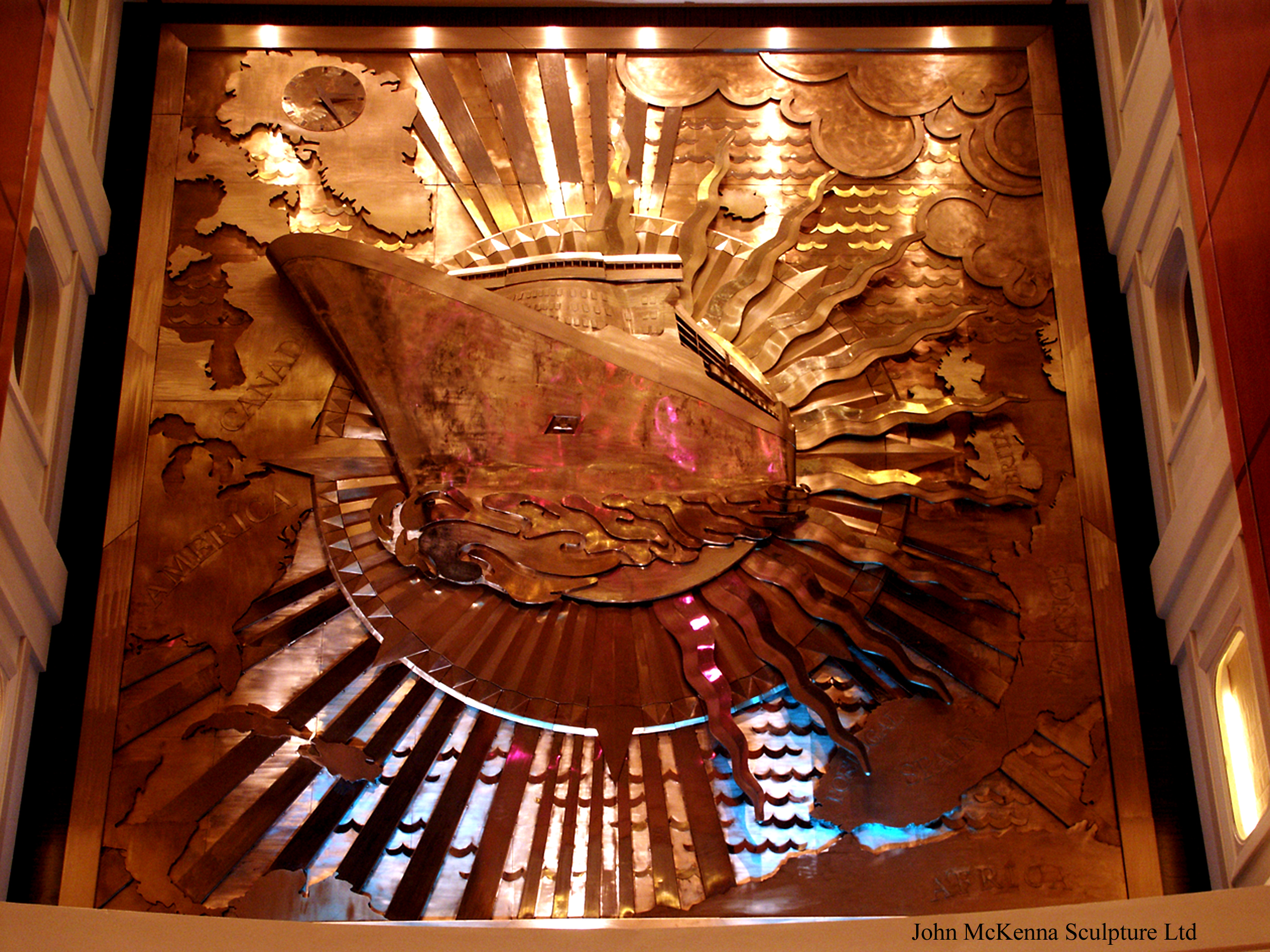 Queen Mary 2 cruise liner ship bronze relief sculpture panel in the grand lobby entrance by John McKenna